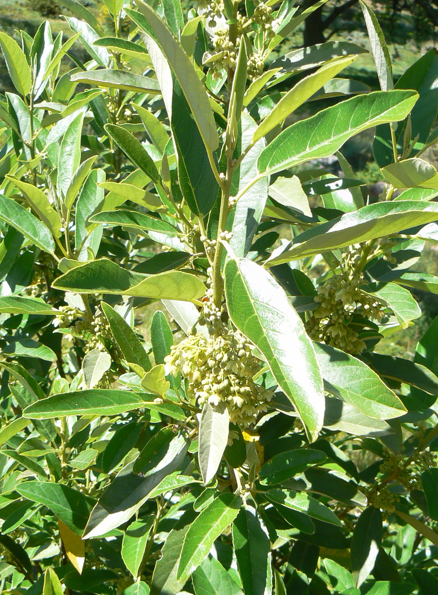 Kiggelaria africana, foliage and flowers in Cape Town.